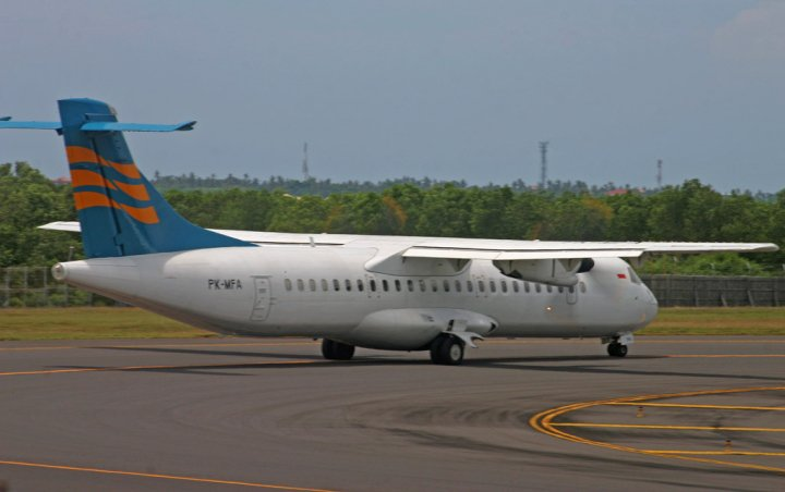 Merpati Nusantara's first ATR72-212 at Bali's Ngurah Rai International Airport.